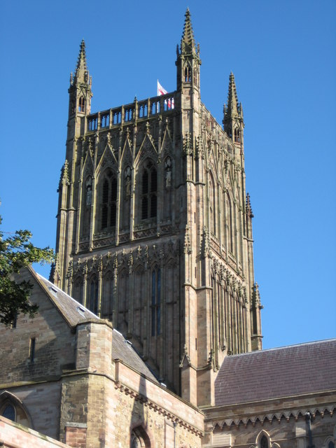 Worcester Cathedral The tower of Worcester Cathedral dates from 1374 it replaced an earlier Norman tower which collapsed in 1175. Here the tower is viewed from the south-east.